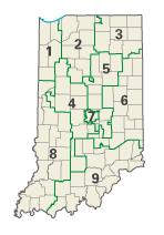 Image adapted from US fed gov't source Category:Congressional districts of Indiana